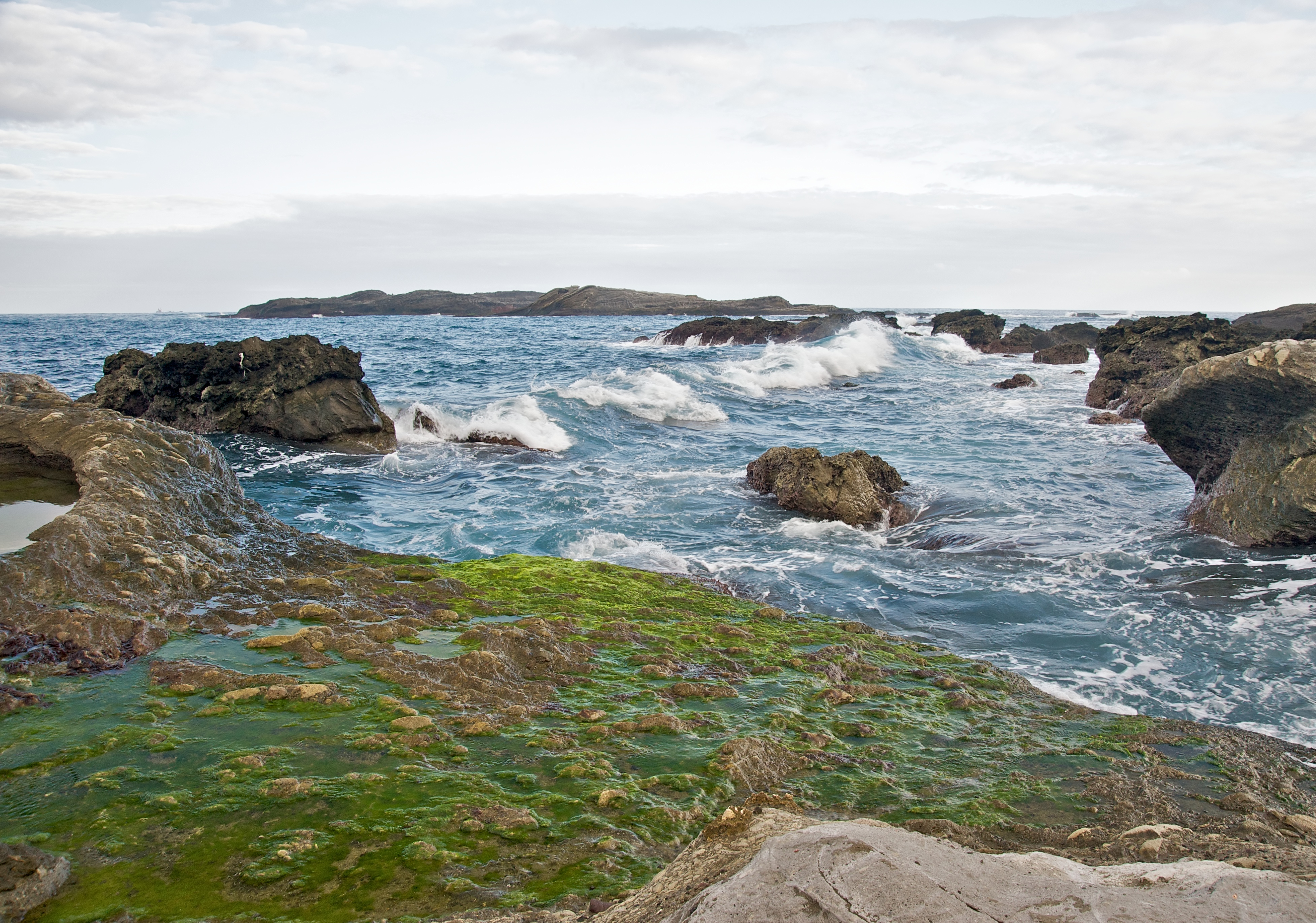 Green algae on rocks at ShihTiPing (giant stone steps) coastal area in Taiwan